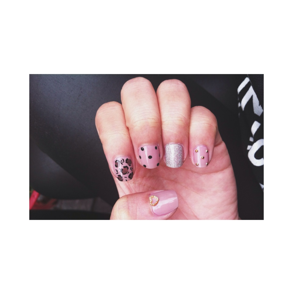 nails polish